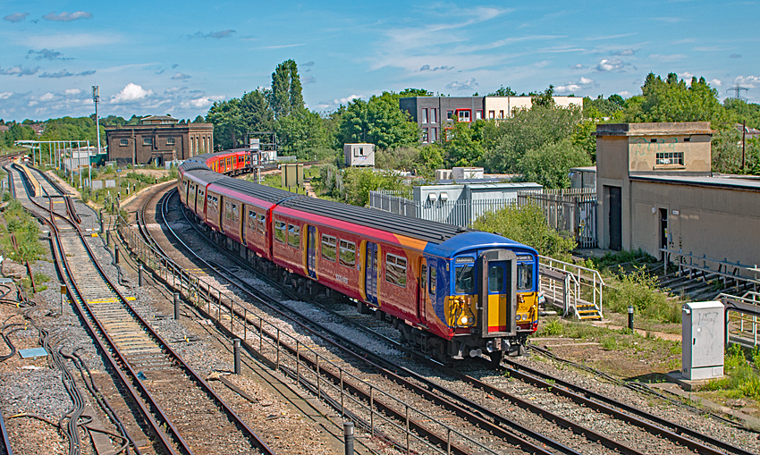 455706 in SWT inner-suburban red arriving at Guildford from the Guildford New Line. Formed of vehicles 77737+62788+71534+77738. Attached to a sister unit to form an 8-car train.